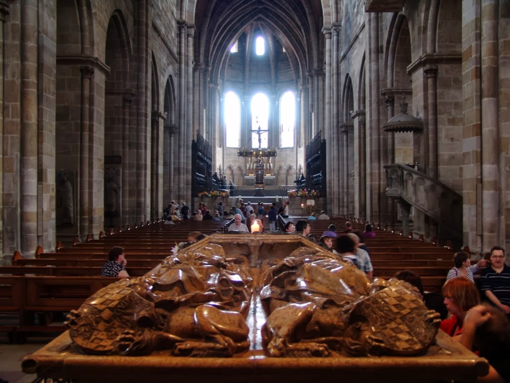 Bamberg Cathedral, interior